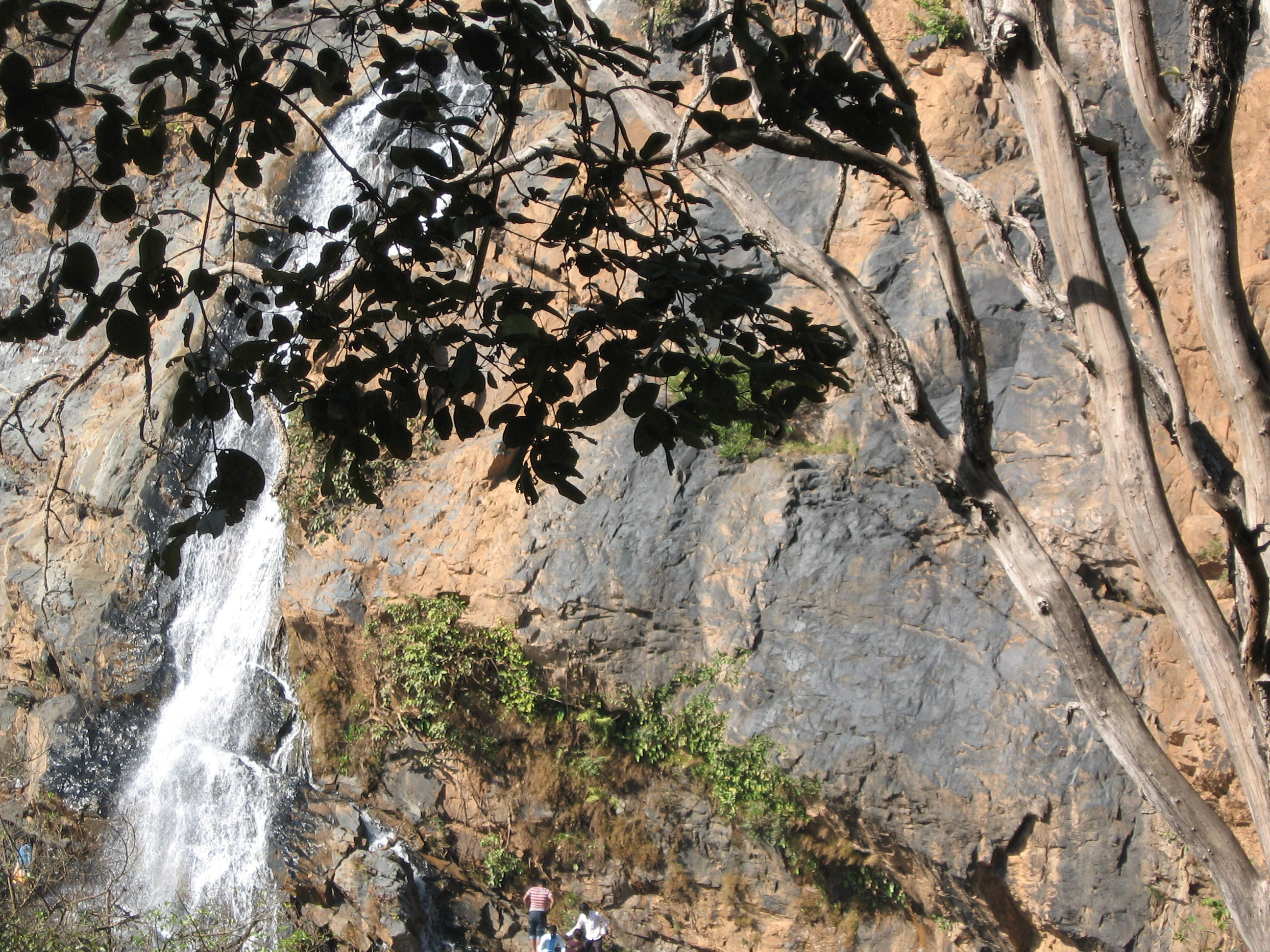 Hirni Falls are 45 kms away from Ranchi and are thronged by a large number of picnickers from nearby places every winter